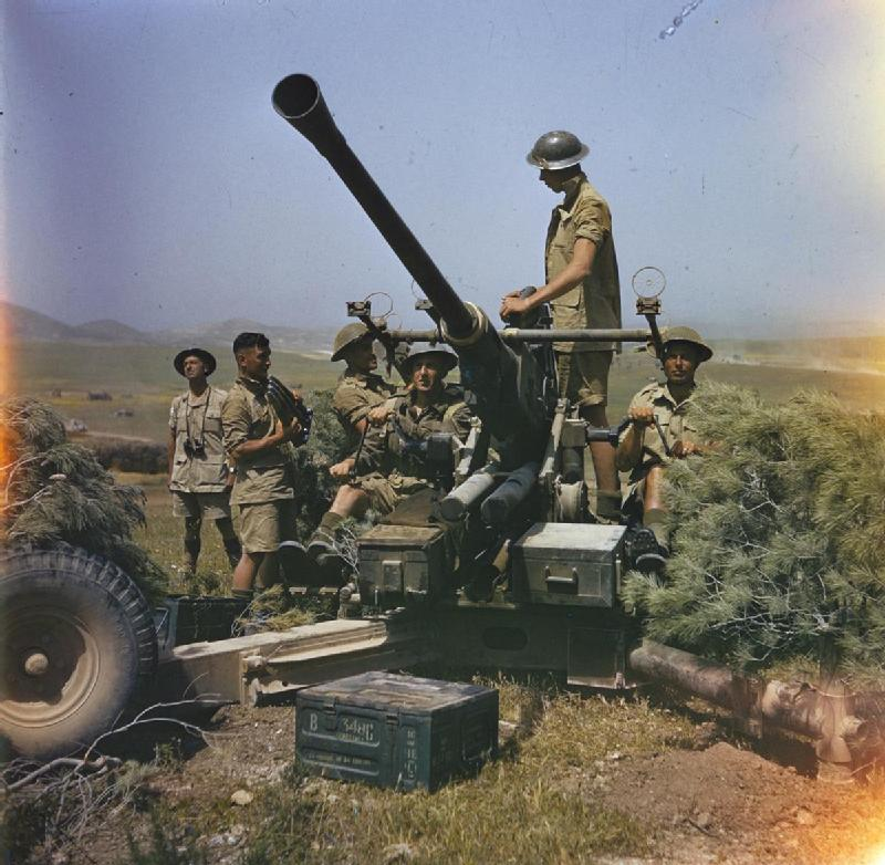 The British Army in Tunisia, May 1943- the Drive on Tunis A light Bofors gun and crew which were in action on the Goubellat Plain near Medjez-el-Bab, against enemy aircraft during operations against Tunis.